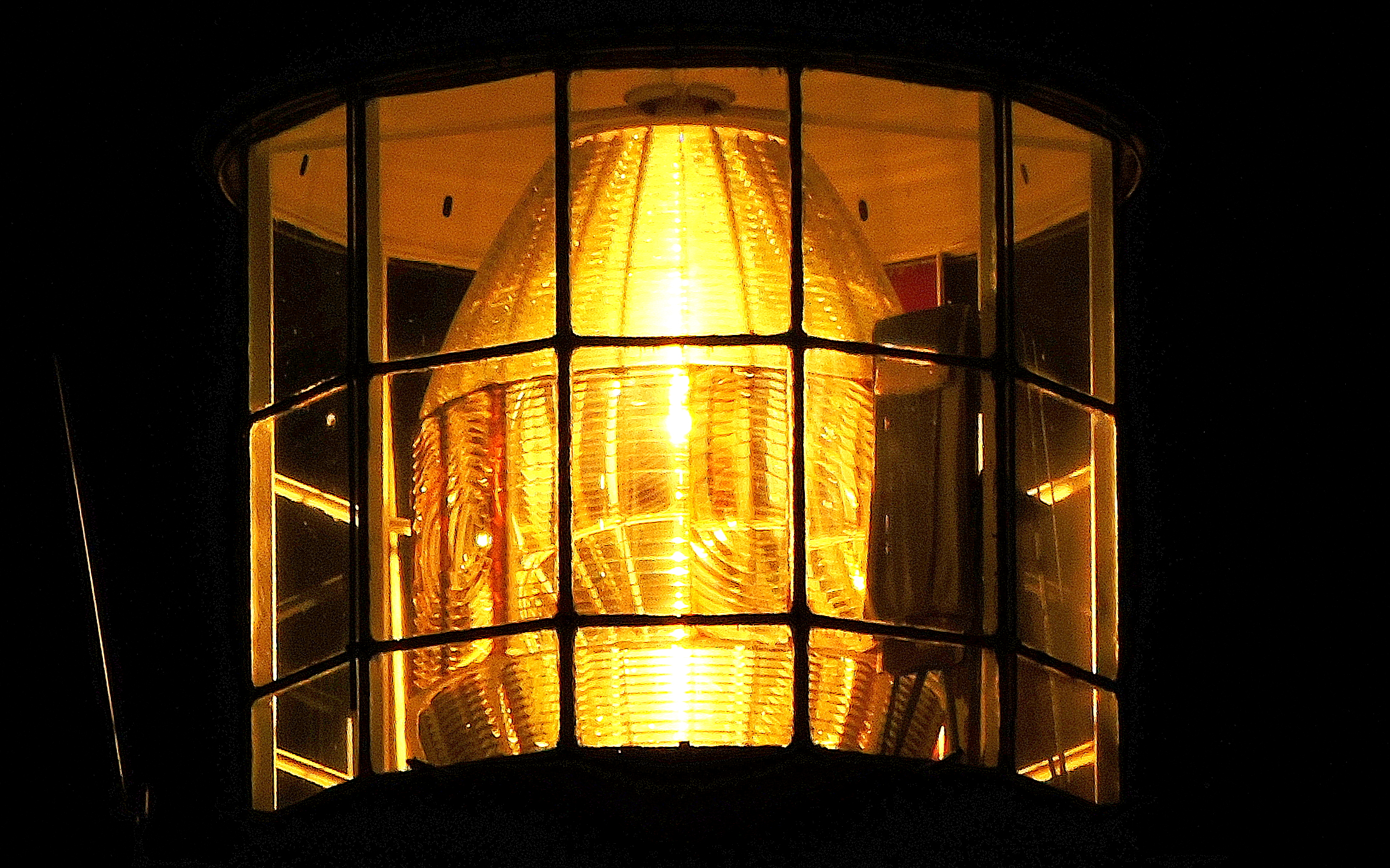 LIGHTHOUSE SANTA MARTA . LAGUNA - SC , BRAZIL